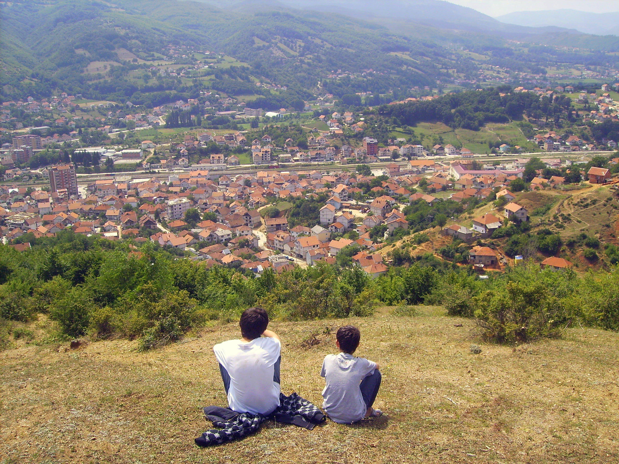 a panorama of Kacanik, Kosovo